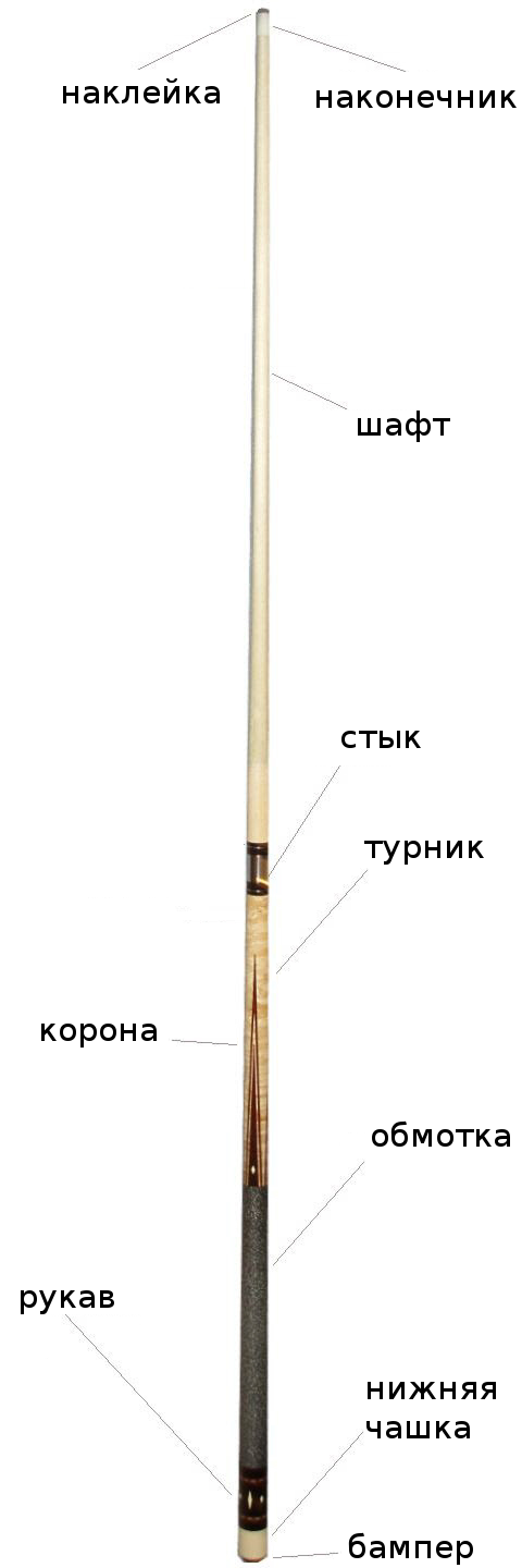 parts of a cue